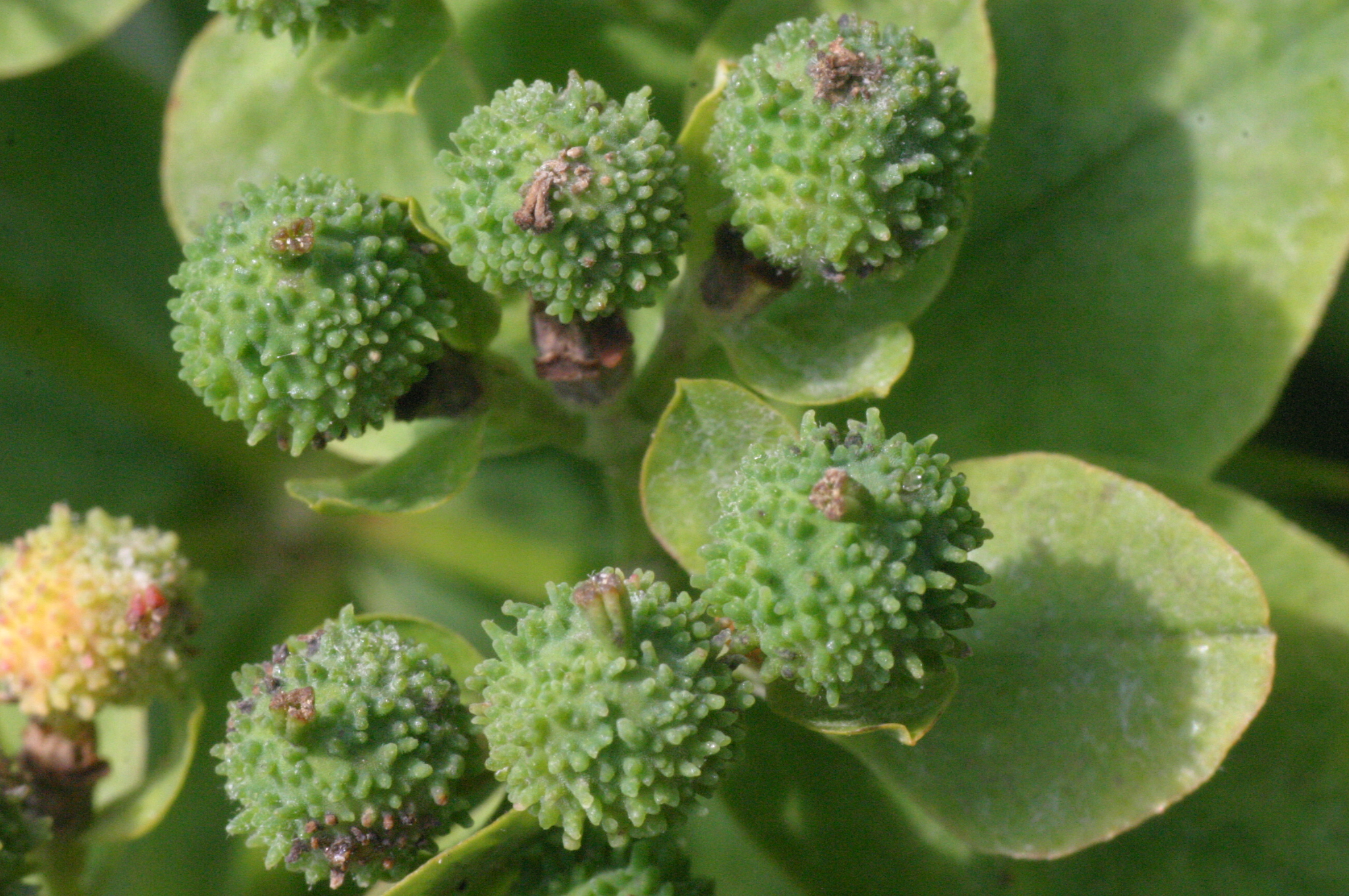 Euphorbia verrucosa